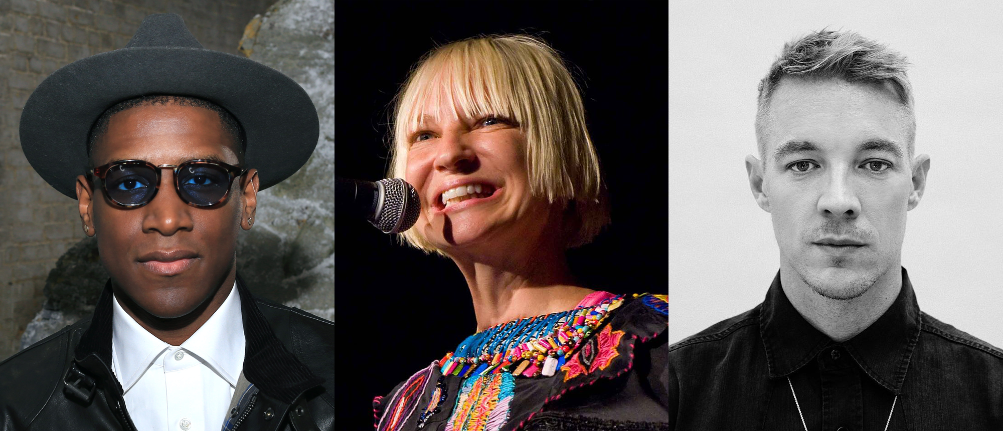 Members of LSD